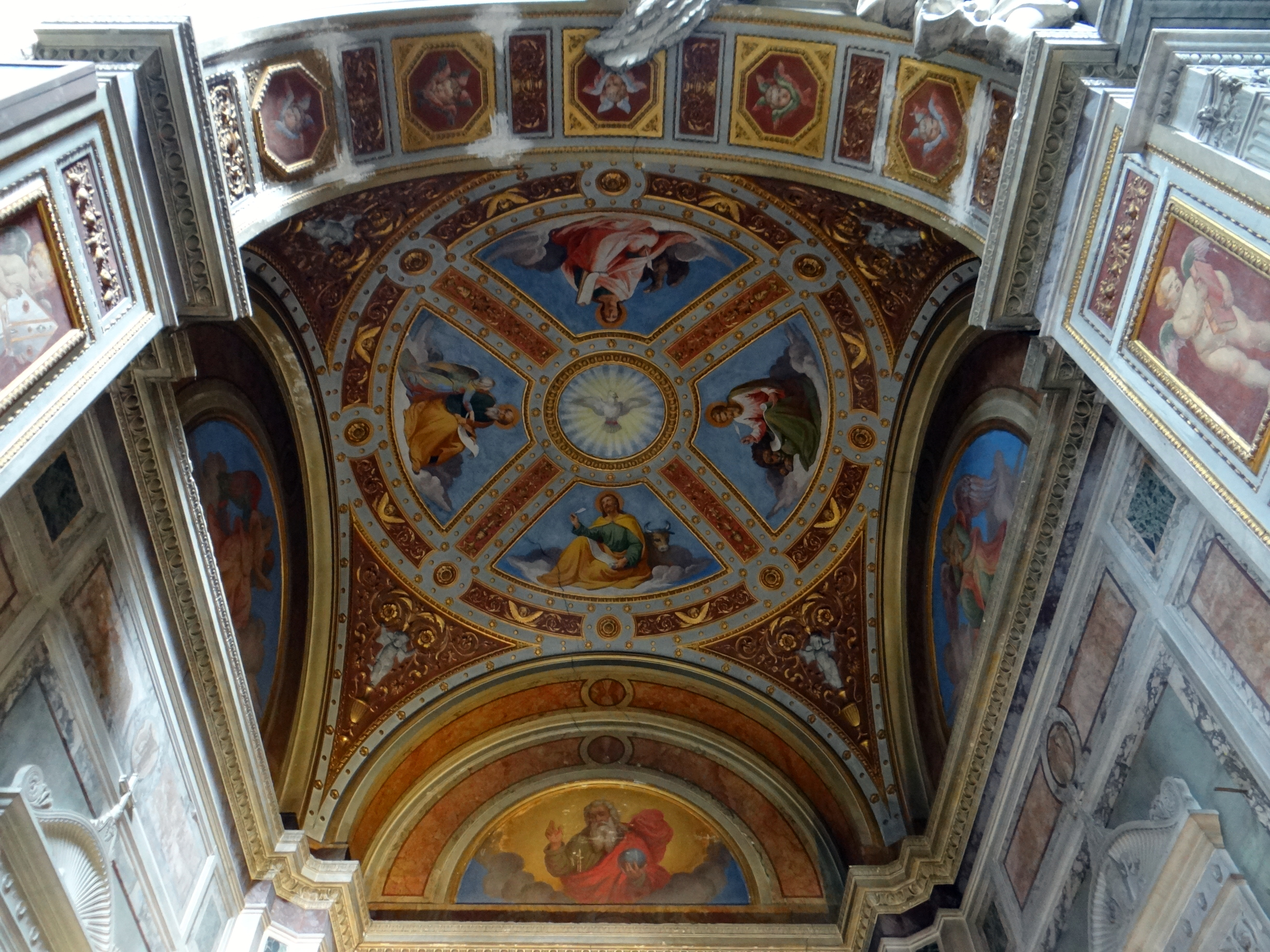 Painted Renaissance Revival decoration on the vault of the Feoli Chapel, Santa Maria del Popolo (Rome). Work by Casimiro Brugnone de Rossi from 1858. The Four Evangelists and the dove of the Holy Spirit on the dome and God the Father in the lunette.